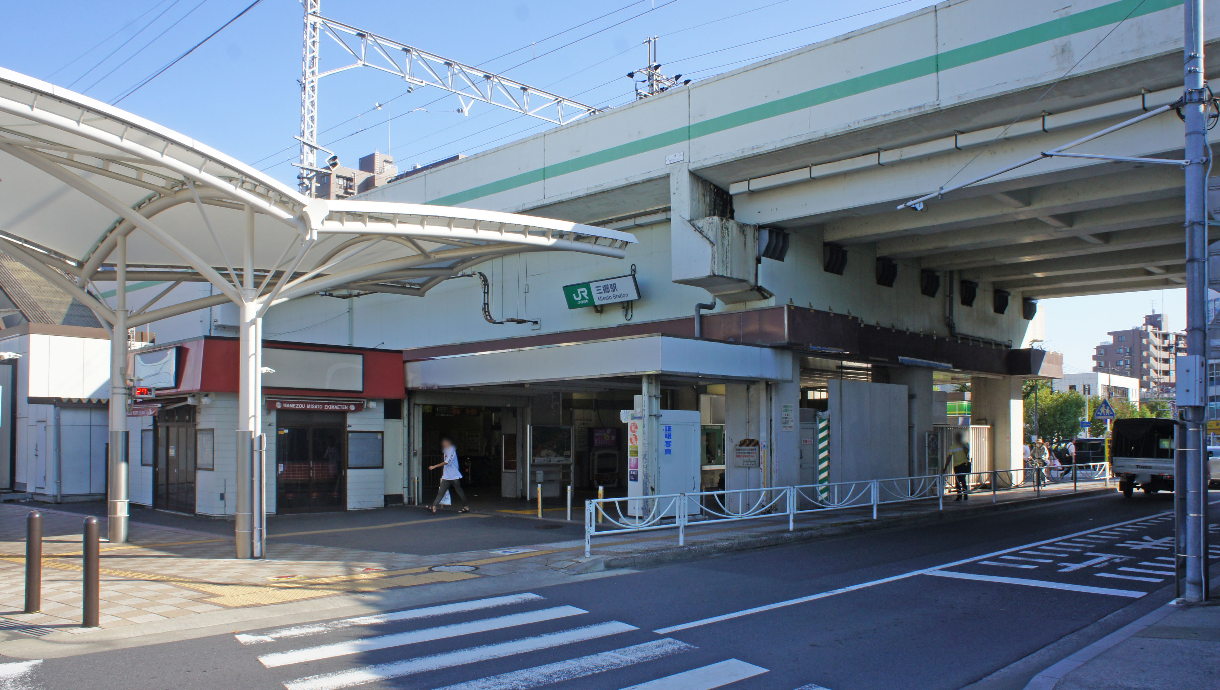 North Exit of JR Musashino-Line Misato Station